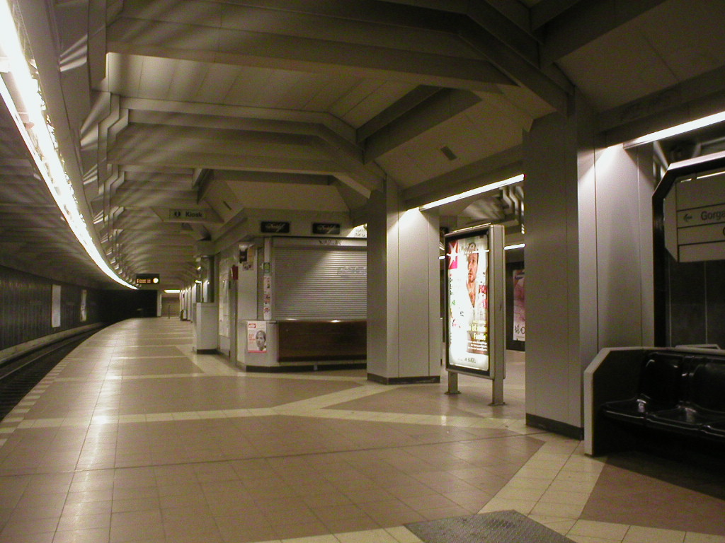 the Berlin U-Bahn station Haselhorst, line U7